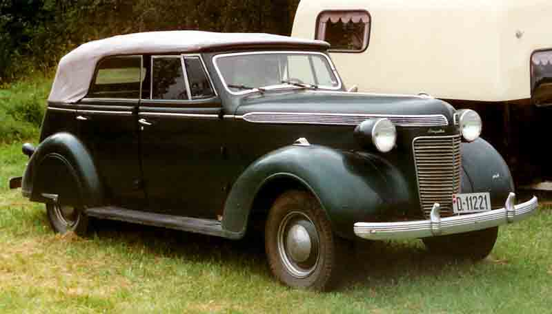 Chrysler Royal Series C-16 Convertible Sedan 1937